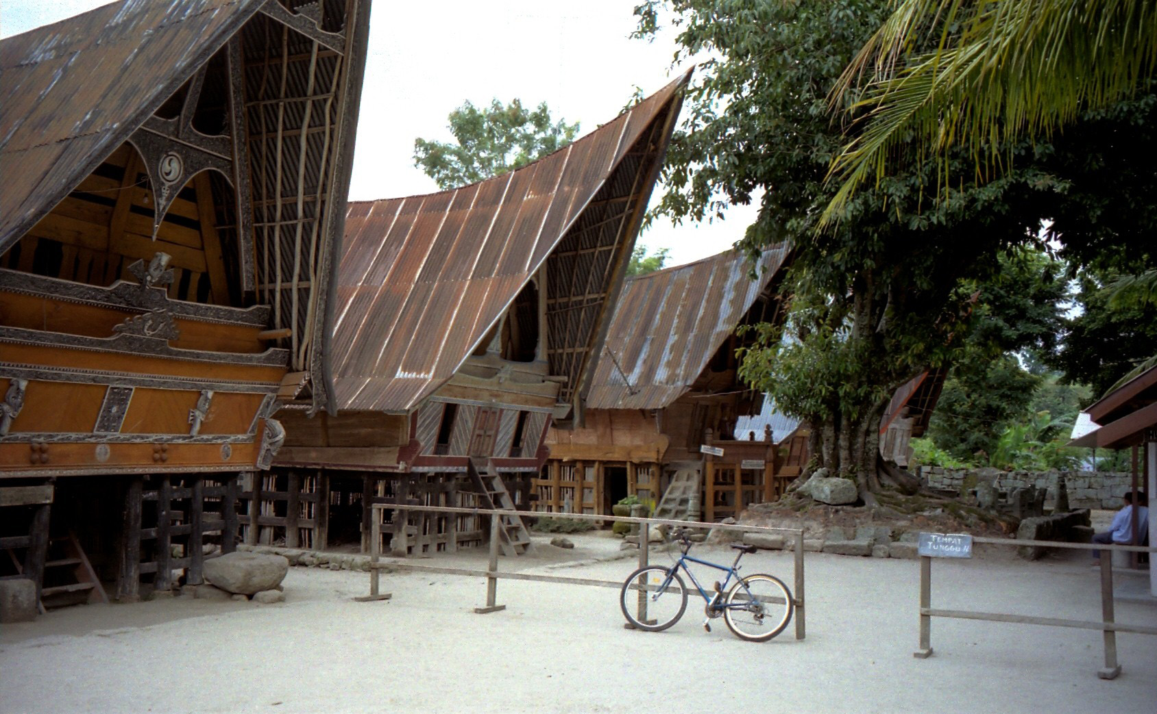 Old Batak Village, Samosir Island, North Sumatra, Indonesia.